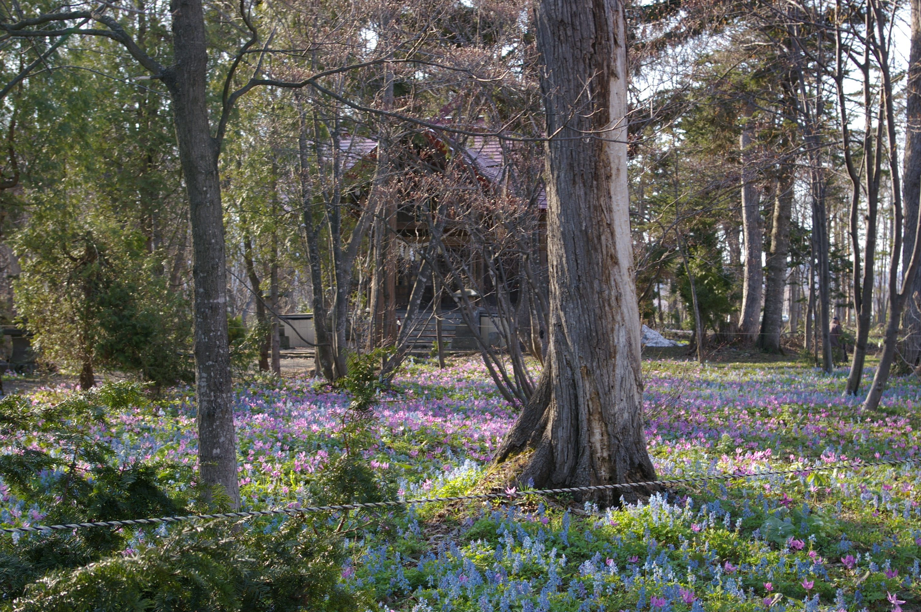 Urausu Shrine in Urausu, Hokkaido